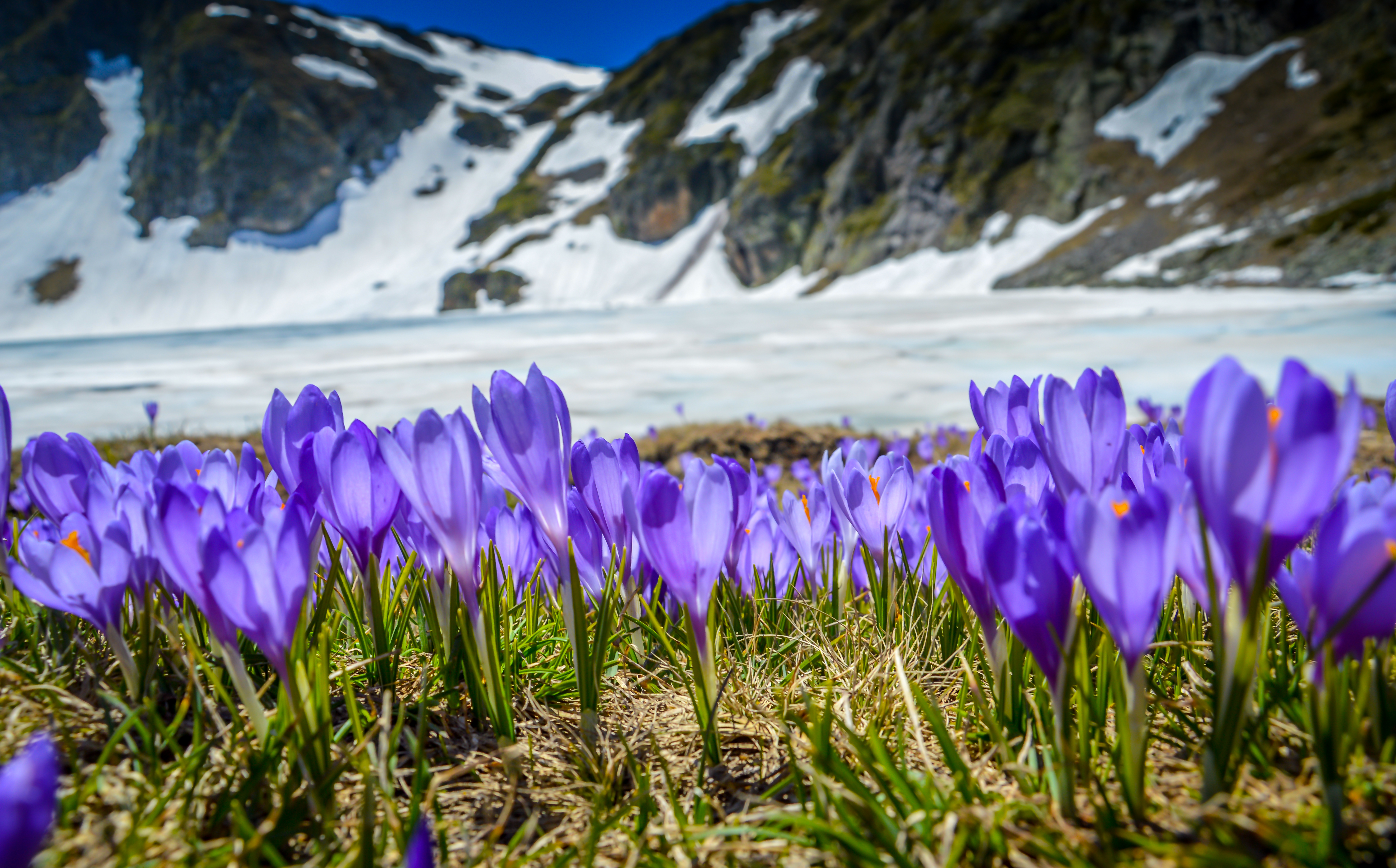 Crocus in Rila National Park